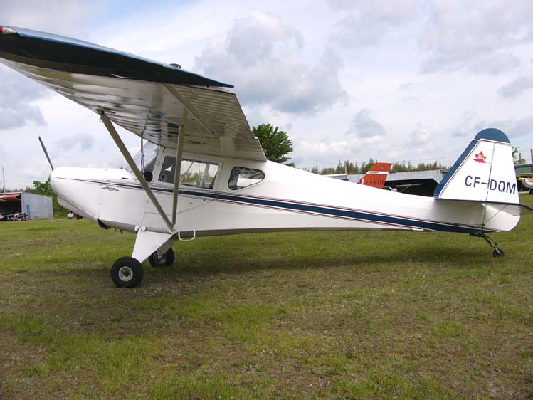 Fleet Canuck (CF-DQM). I took this photo at Smiths Falls Airport on June 5th 2005